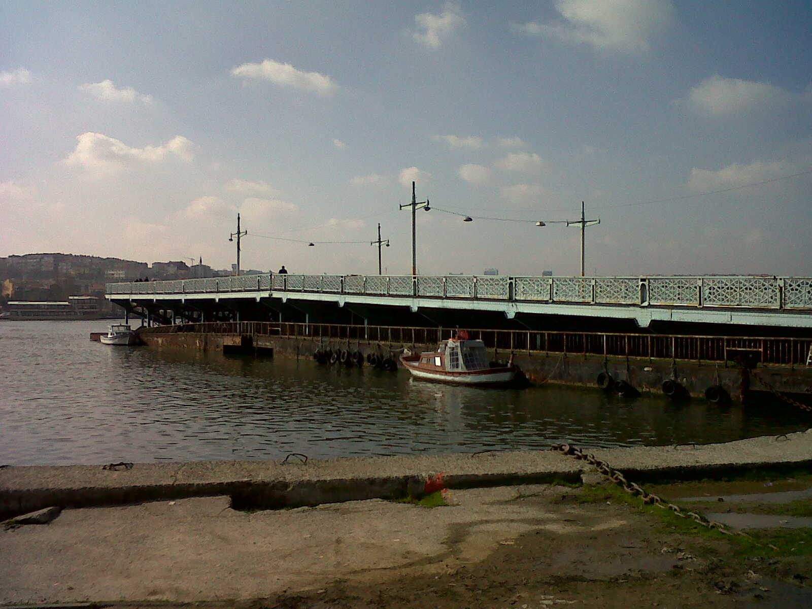 Eski Galata Köprüsü Şub 2012